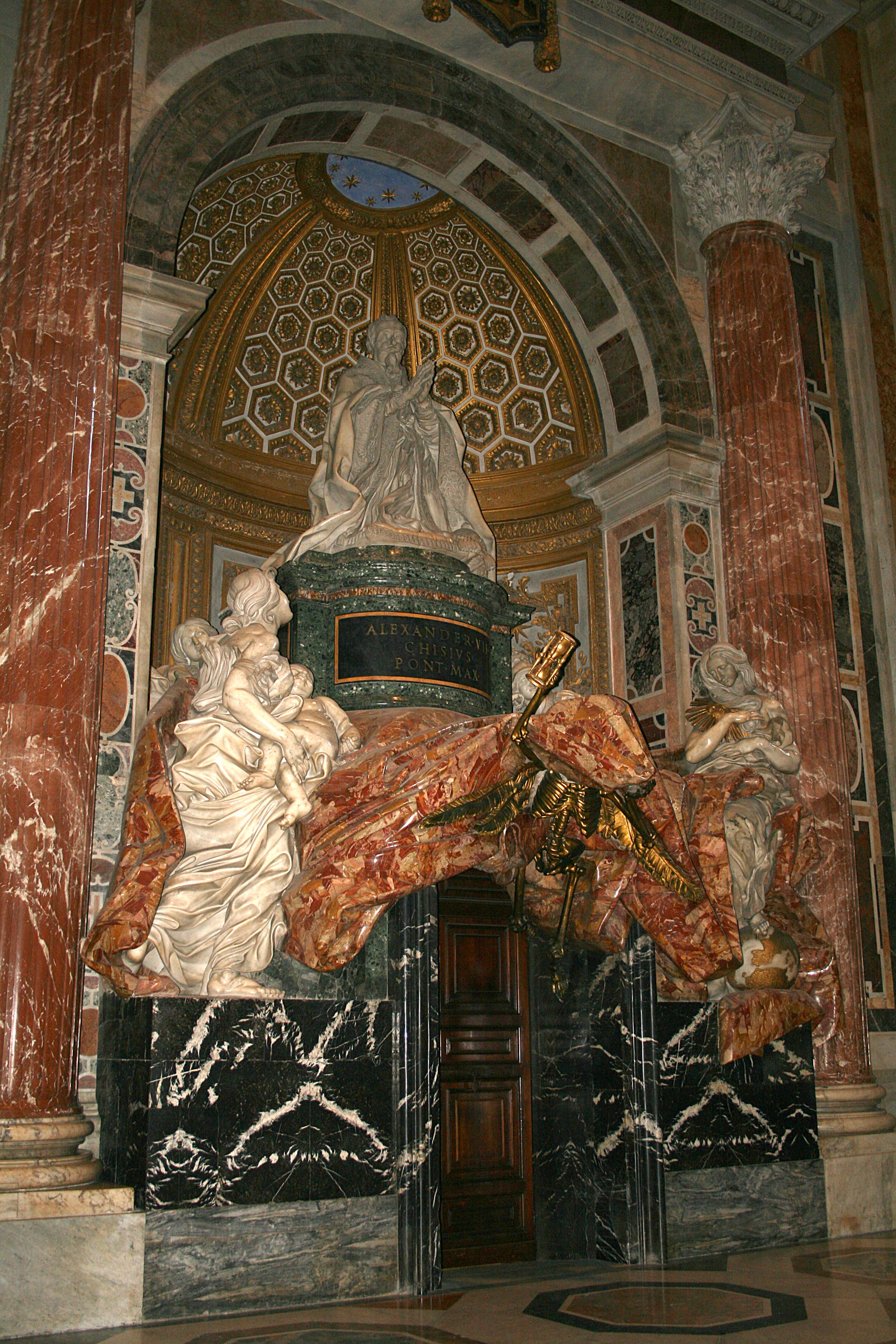 Tombstone of Pope Alexander VII, St. Peter's Basilica, Vatican (1702) - Work of Gian Lorenzo Bernini (1598–1680).